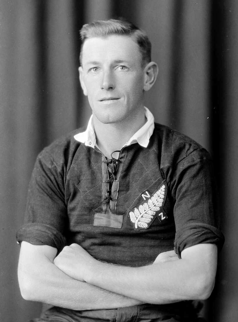 Photograph of All Black Tommy Corkill, taken by Crown Studios Ltd of Wellington.